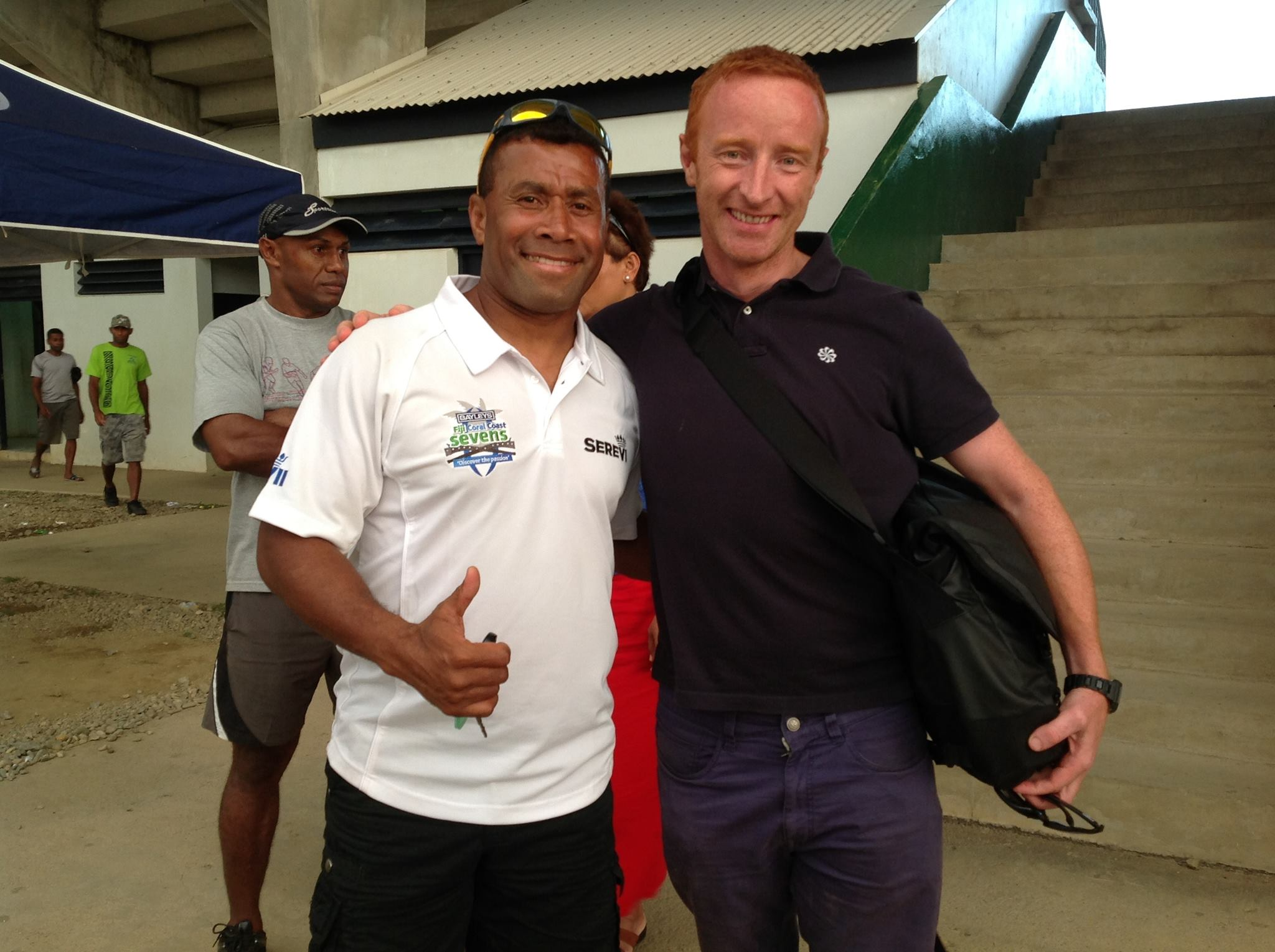 The 2 legends of 7's rugby, Ben Ryan and Waisale Serevi